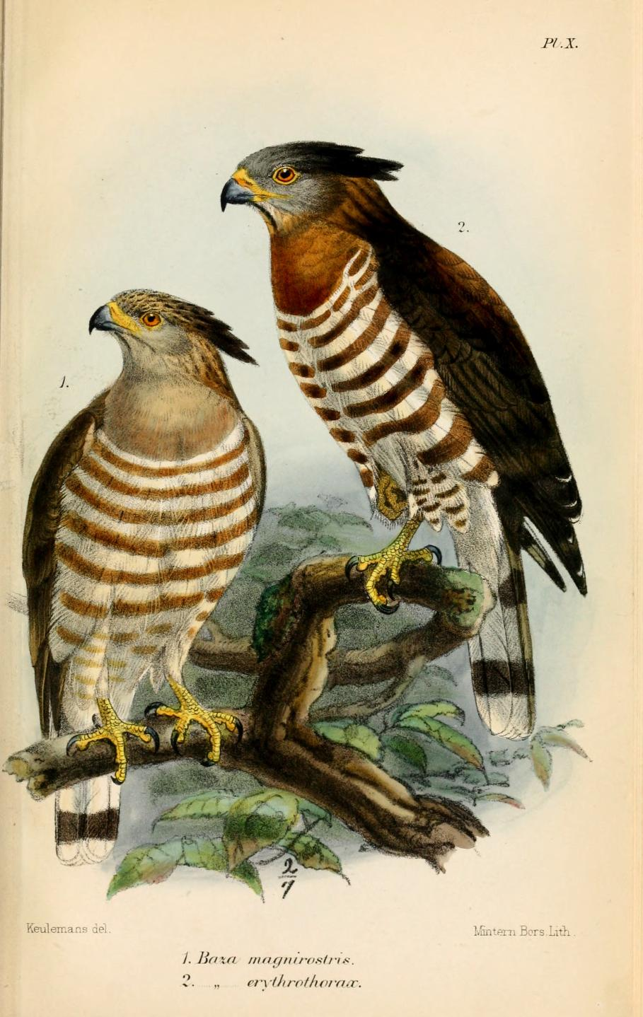 Jerdon's Baza